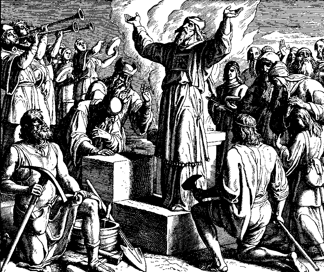 Woodcut for "Die Bibel in Bildern", 1860.